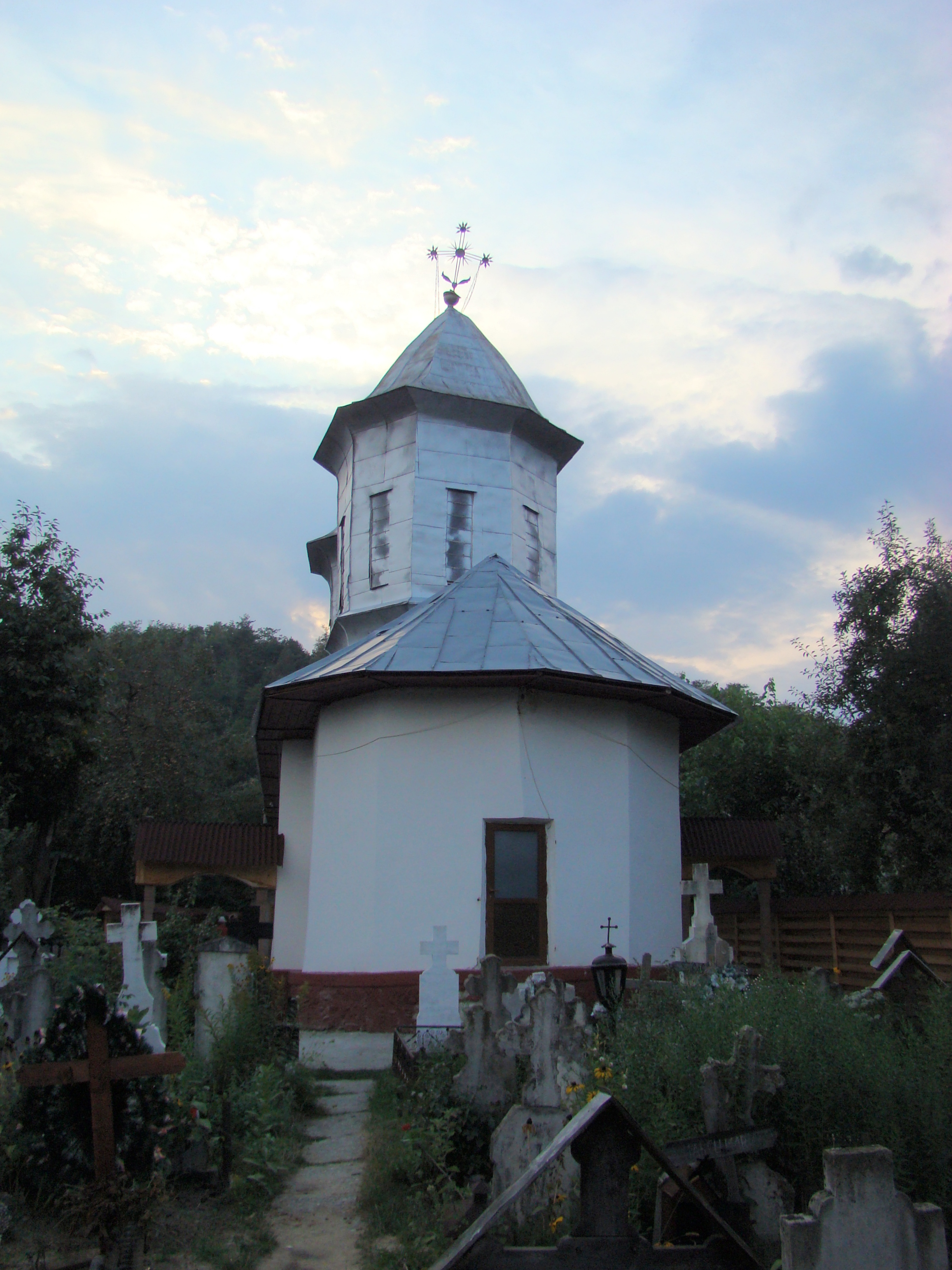 Wooden church in Vărzăroaia, Argeș county, Romania